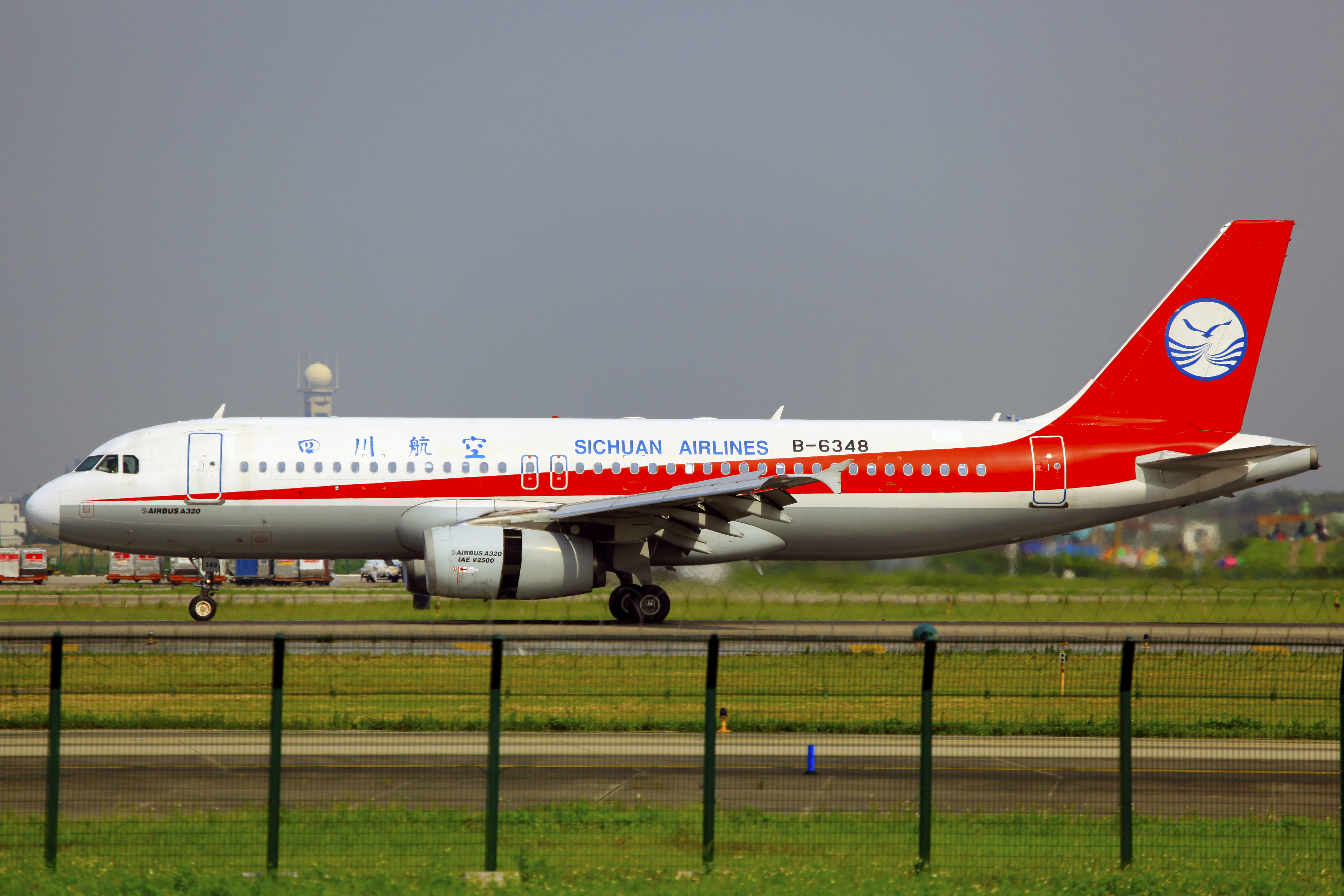 B-6348 | Sichuan Airlines | Airbus A320-232 | Guangzhou Baiyun International Airport [CAN]